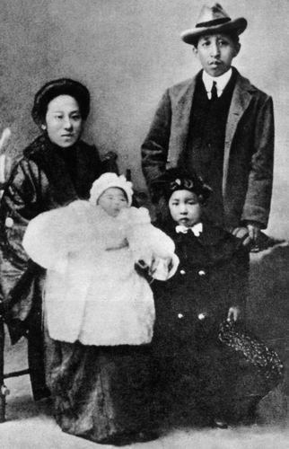 Liao Zhongkai (standing), He Xiangning (seated) with children Liao Mengxing and Liao Chengzhi (held by He Xiangning) in Tokyo